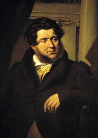 Portrait of engraver Paolo Toschi (1788-1854)